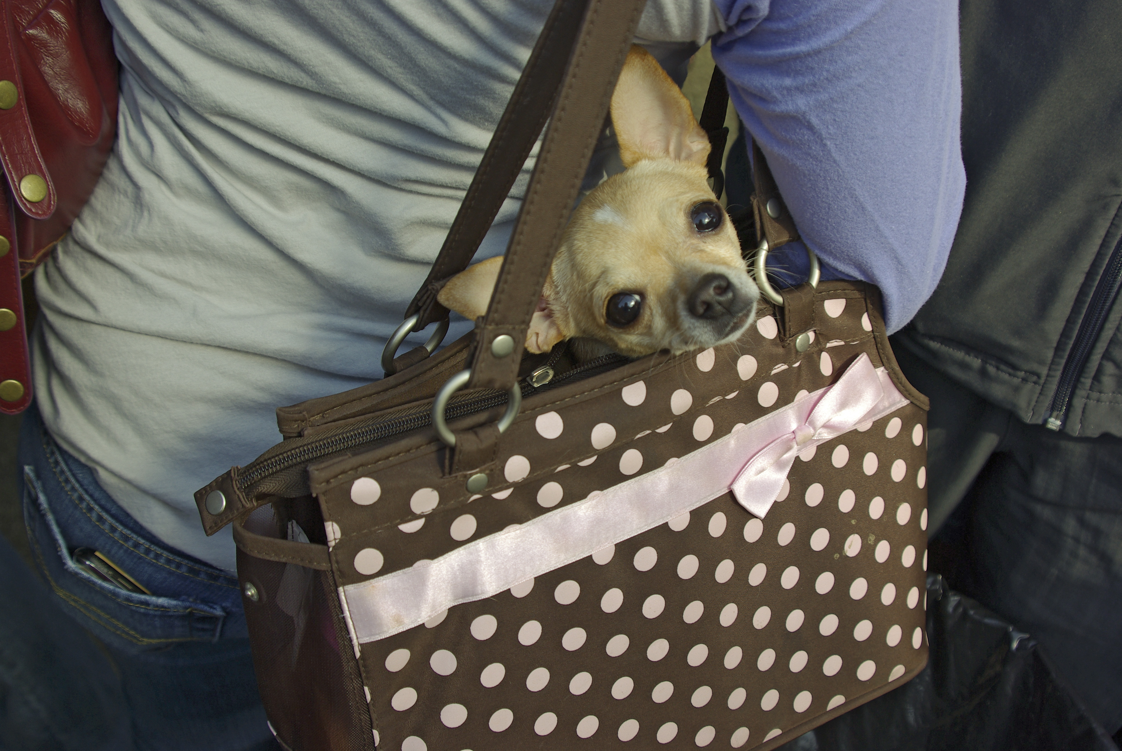 Chihuahua dog in a purse. At the Abita Stage during the New Orleans French Quarter Fest, on the moonwalk riverfront of the Mississippi. 2008.